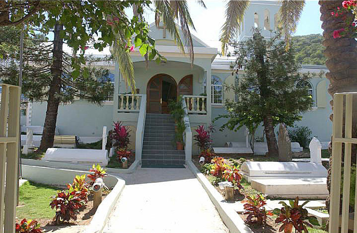 BUILT IN THE 18TH C BUT REBUILT AFTER A HURRICANE IN THE 19TH C